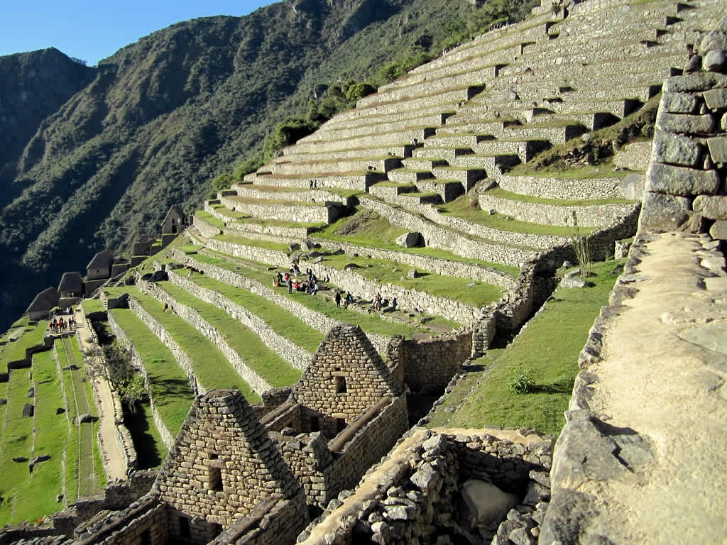 Terraces used by the Inca to grow food climb a hillside at Machu Picchu, Peru.